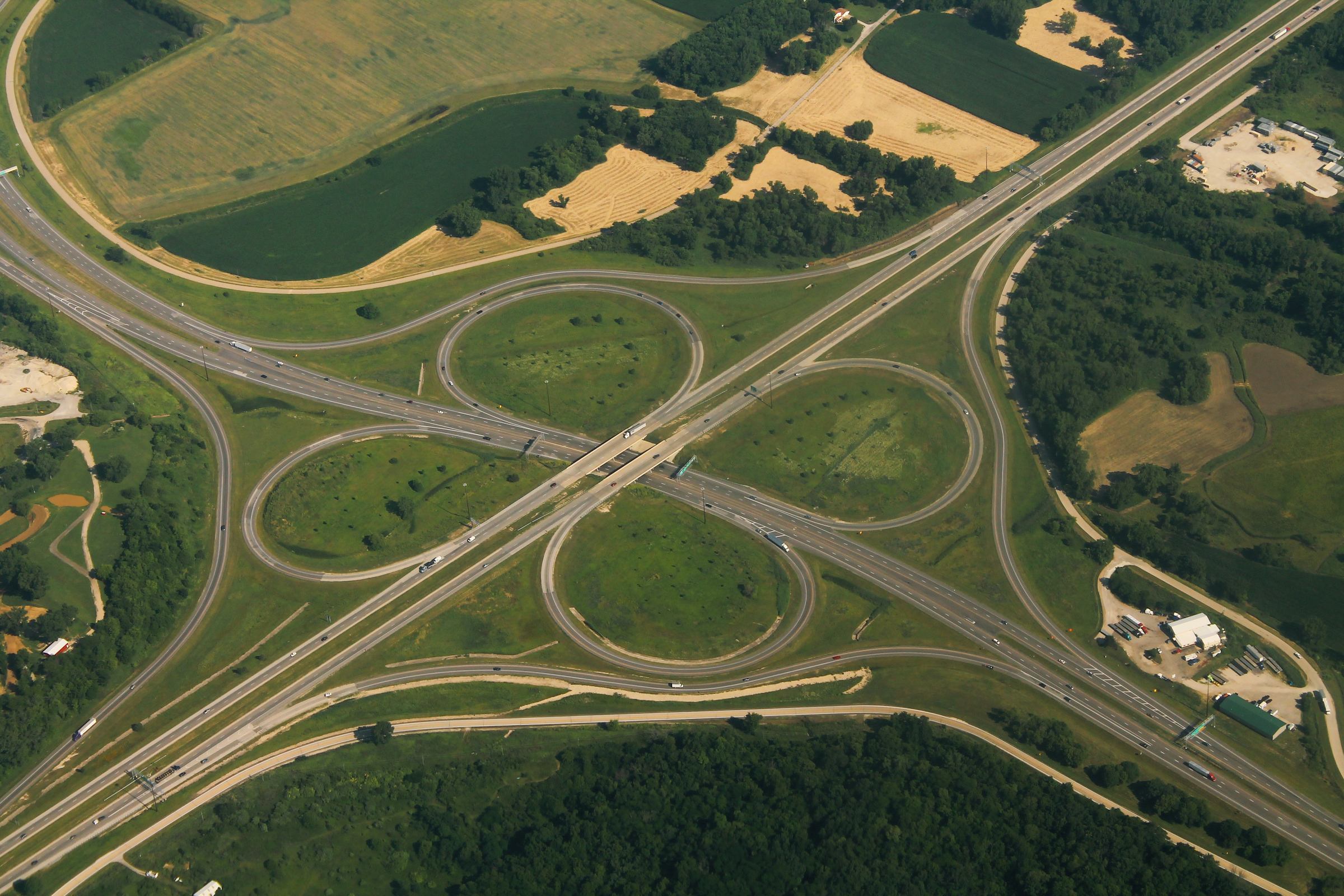 I-80 and I-88 Cloverleaf - Facing Southeast